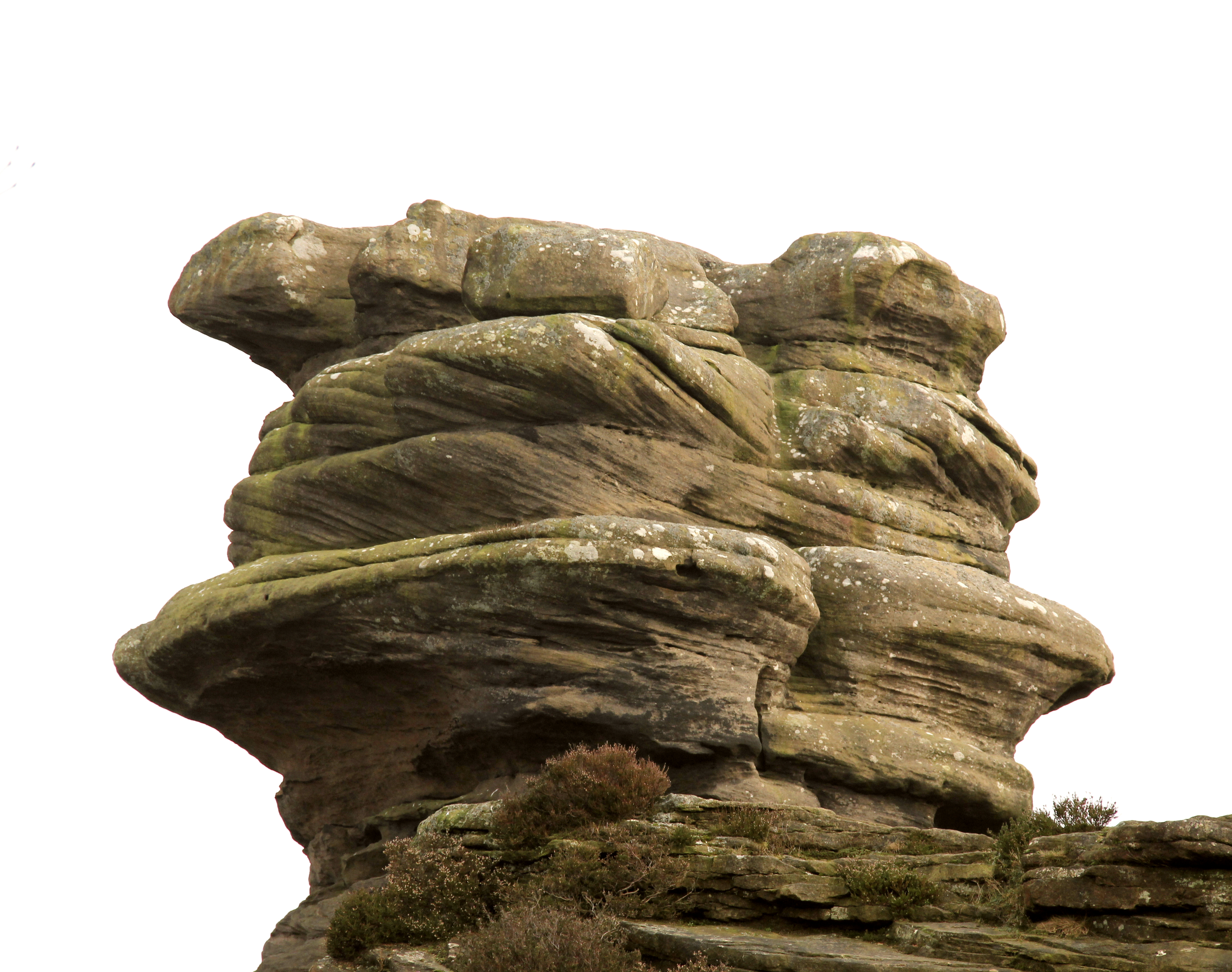 Brimham Rocks, North Yorkshire, England. This is a Site of Special Scientific Interest, designated for its geological and biological significance. showing the Turtle. Note the twisted strata.